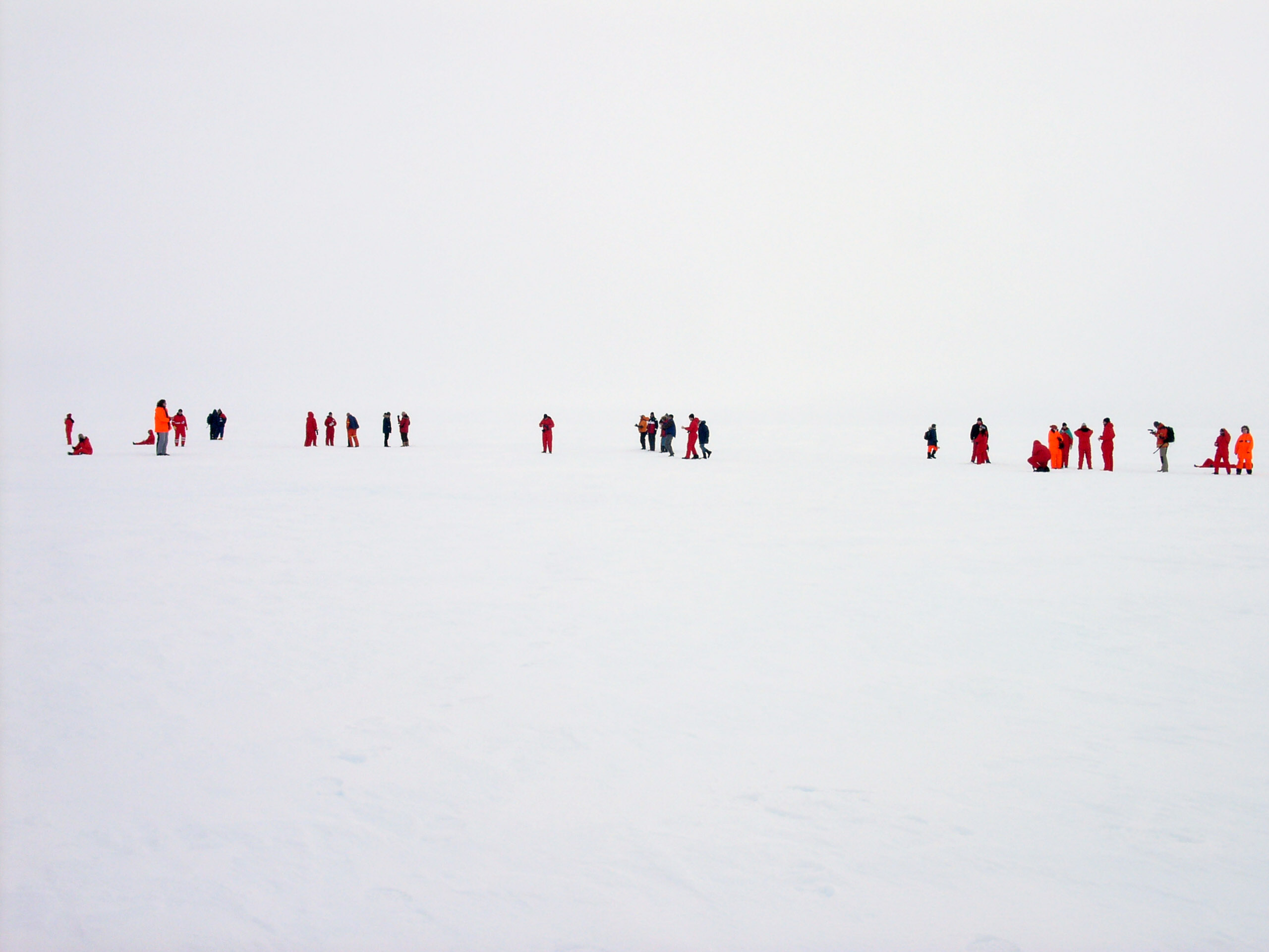 White out on the Ekström Shelf Ice, Weddell Sea, Antarctica